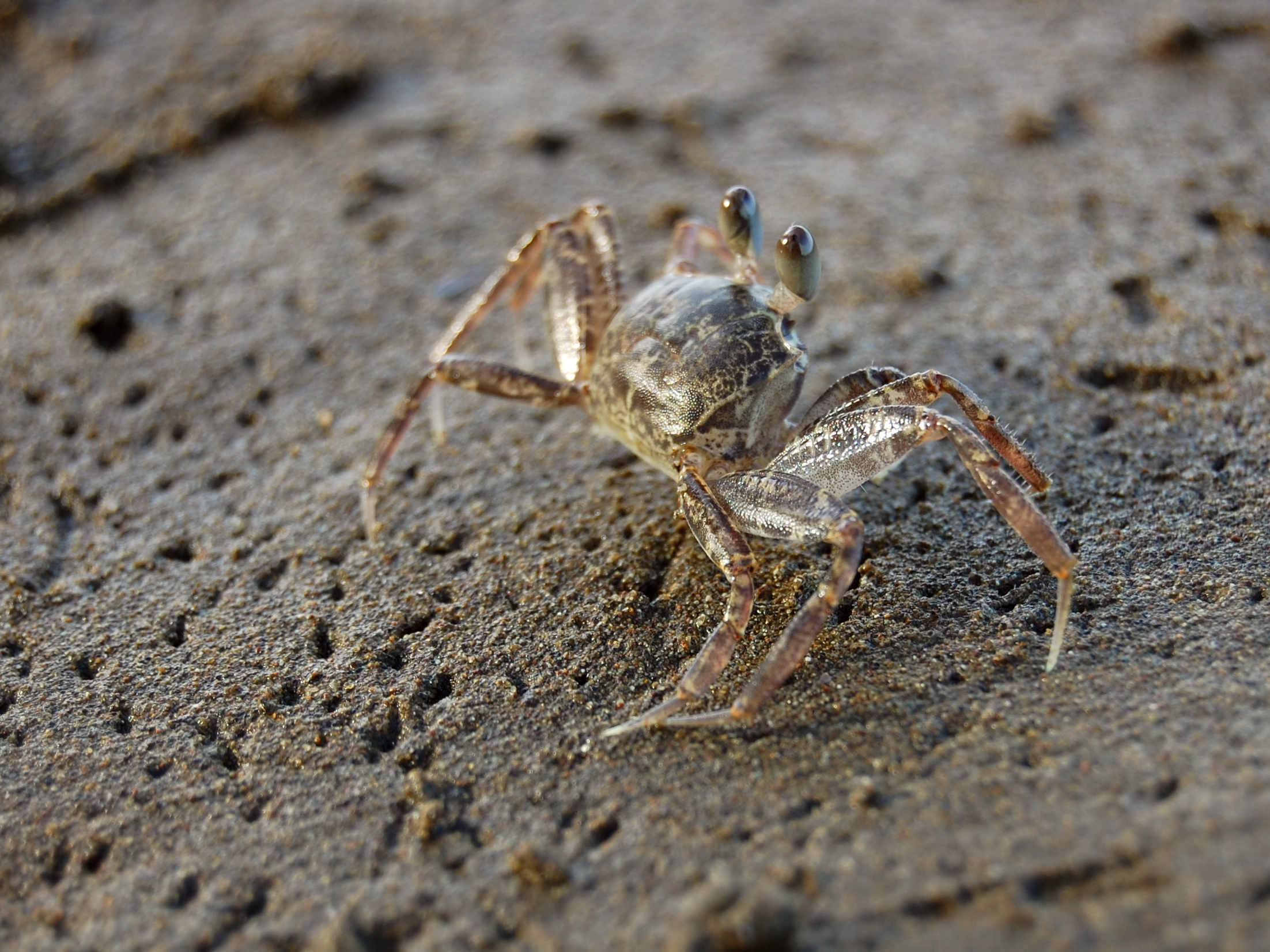 Kuhl's ghost crab, Ocypode kuhlii. Palabuhanratu, West Java, Indonesia.